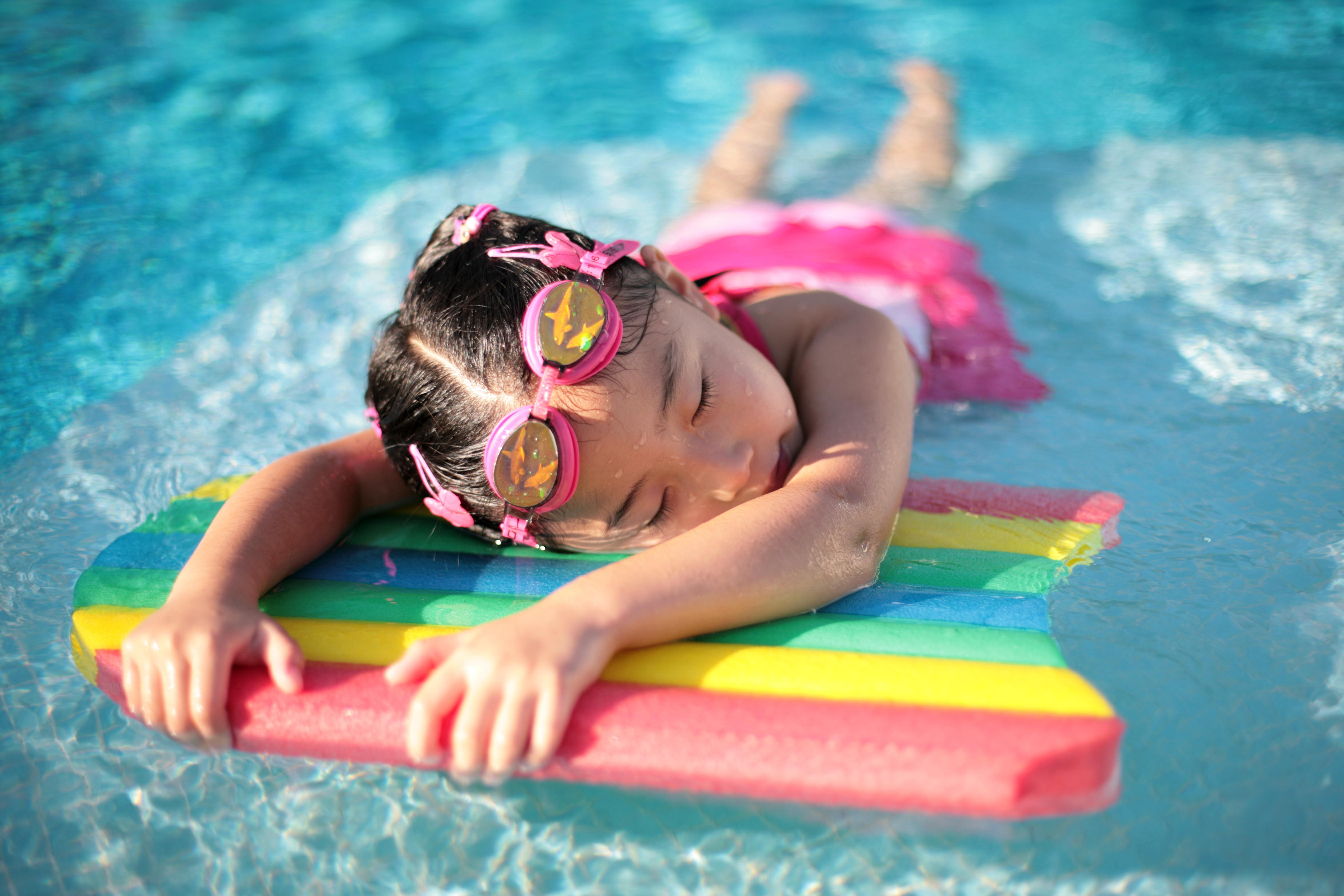 A Chinese girl taking a break in a swimming pool, grabbing on to a rainbow-coloured styrofoam flotation device.